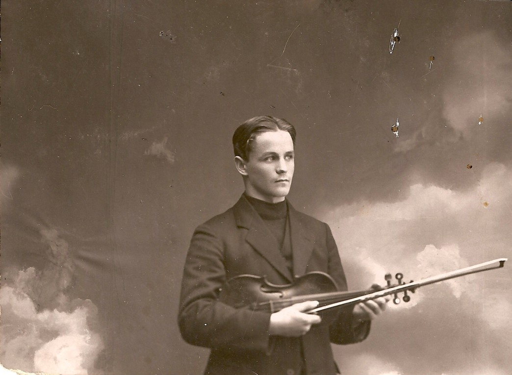 Photograph of the Finnish composer Sam Sihvo (1892–1927).